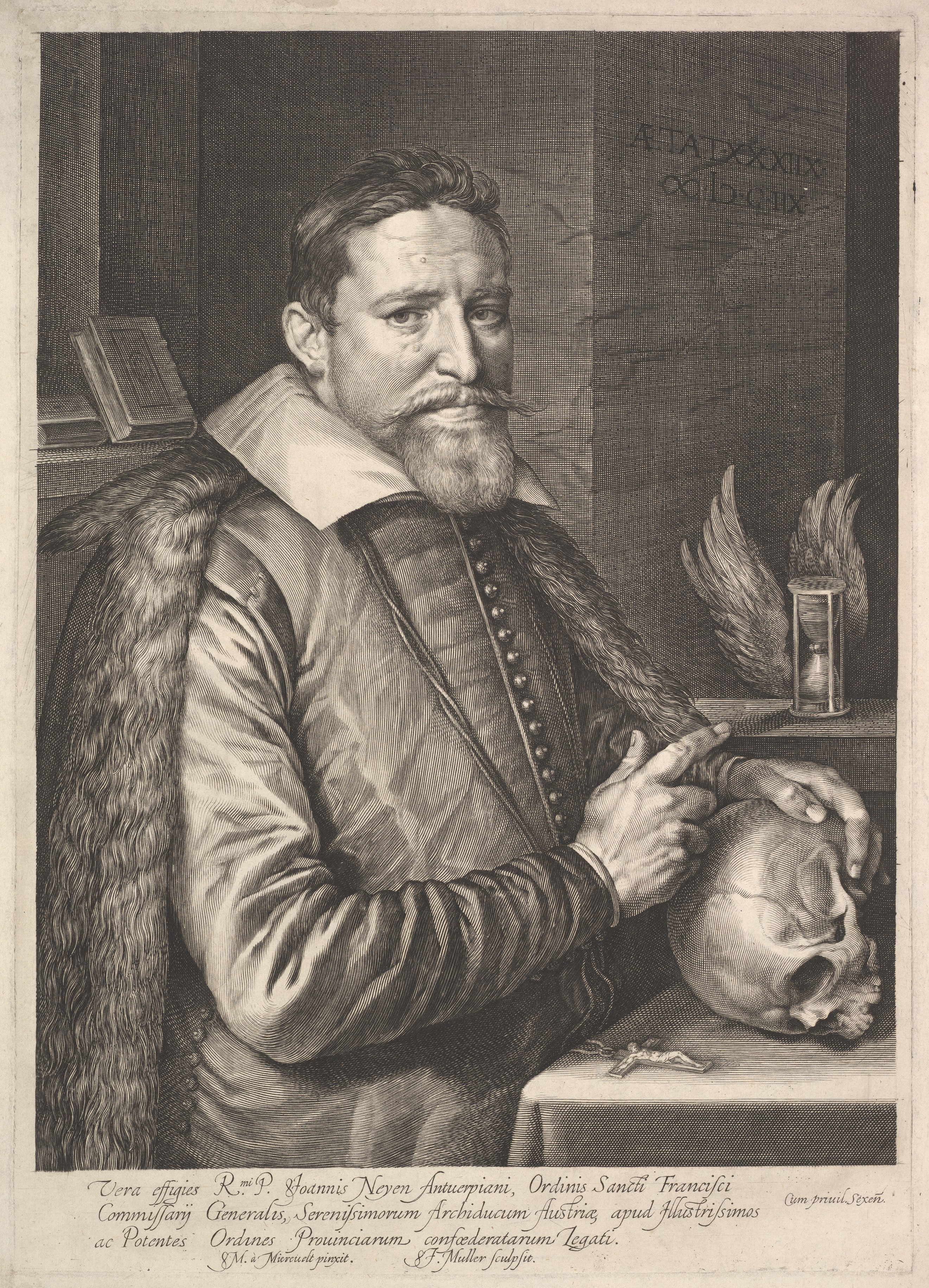 Print; Prints